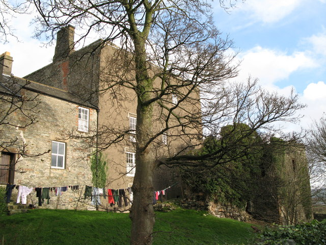 Millom Castle Now a farmhouse; complete with dry surrounding moat and ruined adjoining buildings.